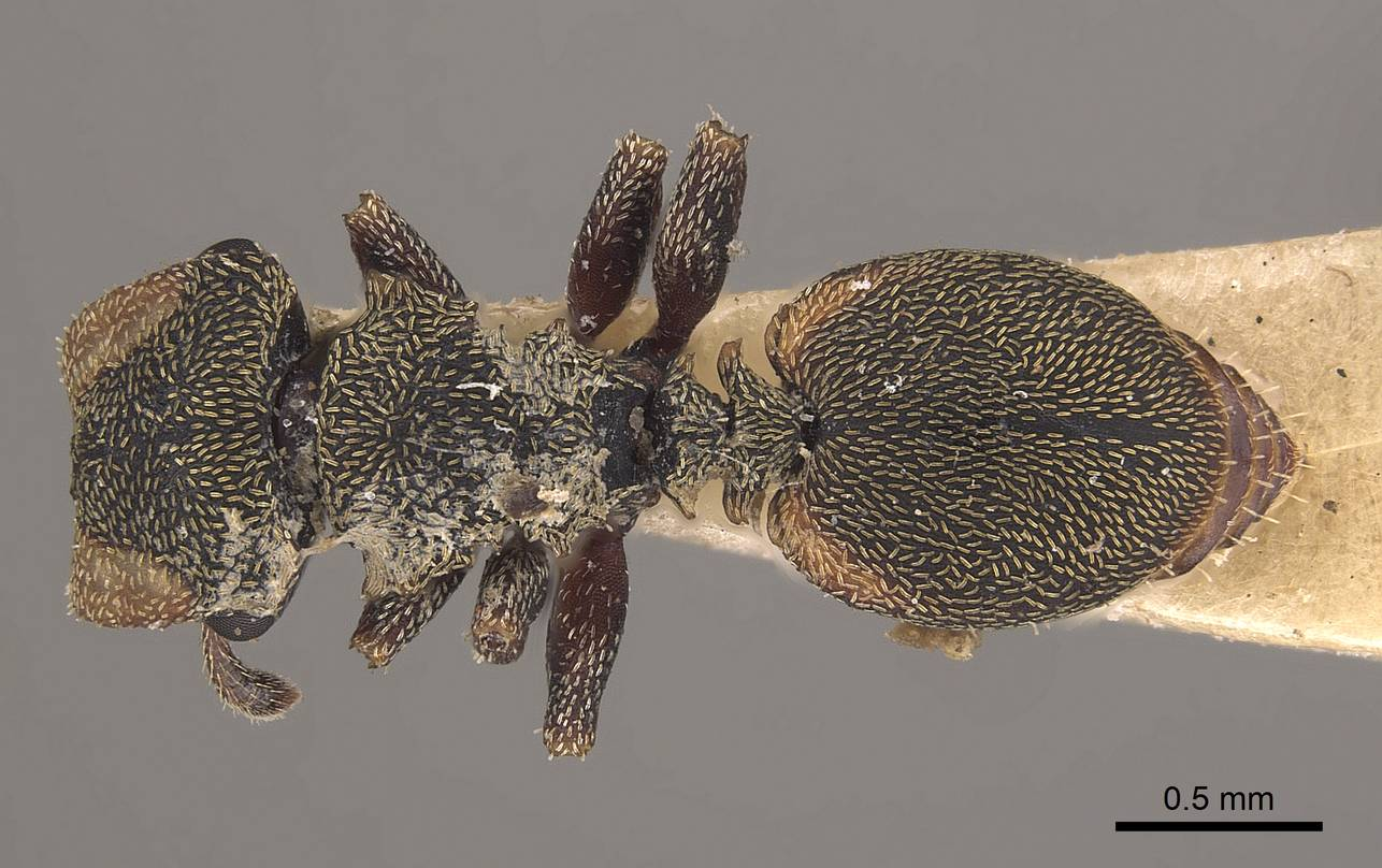 Dorsal view of the Cephalotes coffeae paratype worker. Collected from a Coffea arabica microhabitat in Cundinamarca, Colombia, on 13 March 1952 Natural History Museum, Vienna specimen CASENT0919595